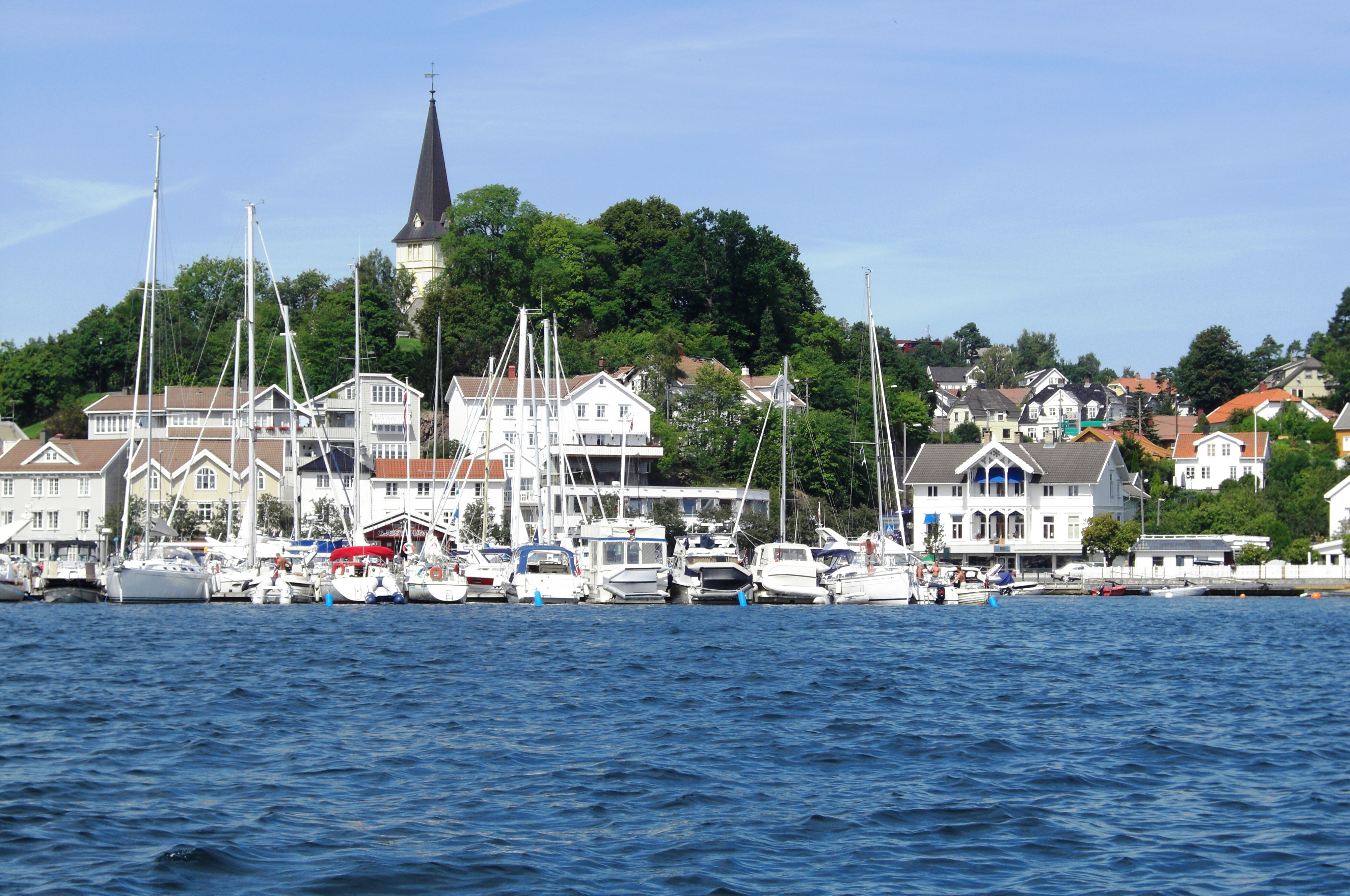 Grimstad guest harbour